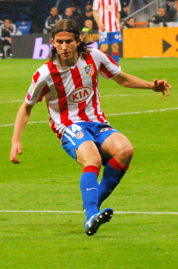 Brazilian football player Filipe Luís Kasmirski while playing for Club Atlético de Madrid